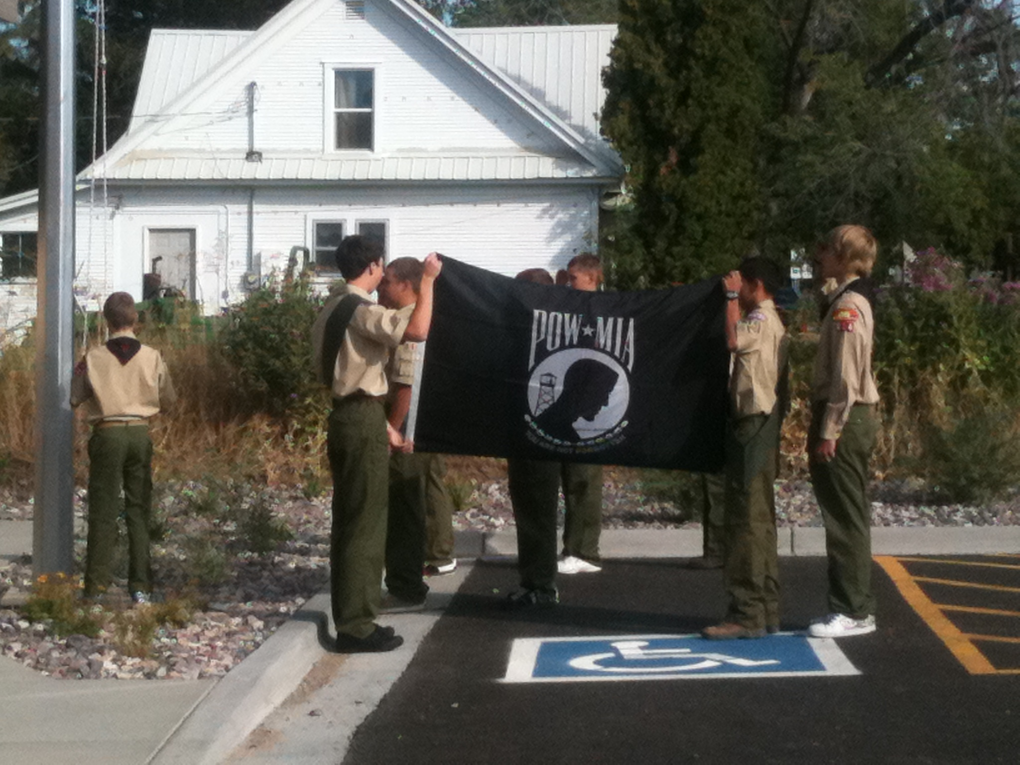 McCammon Library Opening Flag Ceremony, Boy Scouts